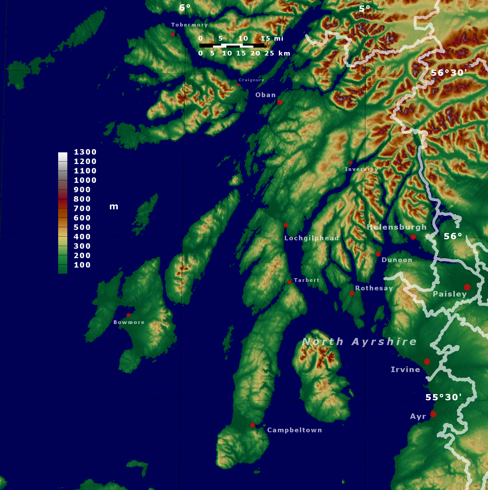 Map created with 3DEM from SRTM (